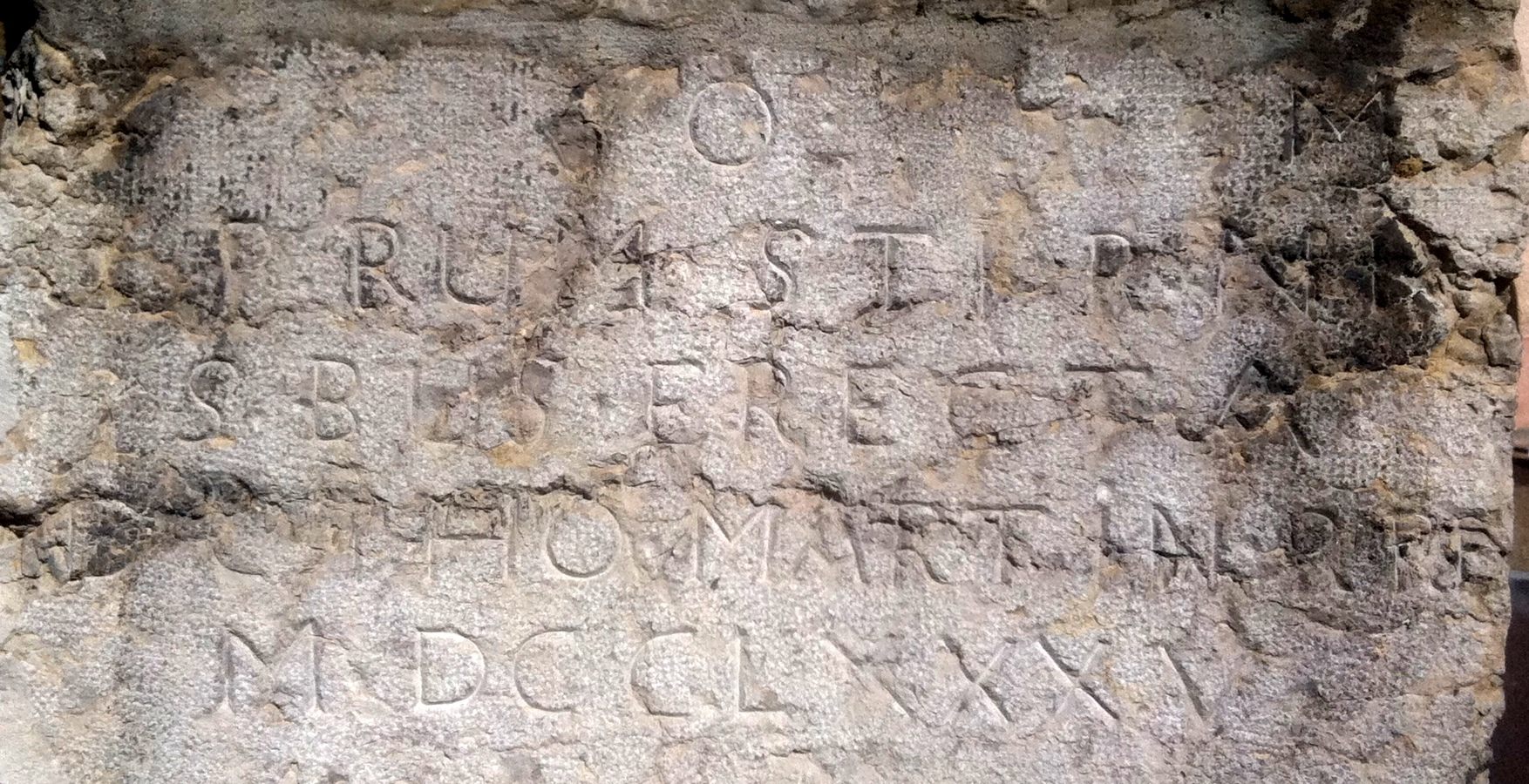 Inscriptions latines, sur la face sud du calvaire-fontaine de Miribel.